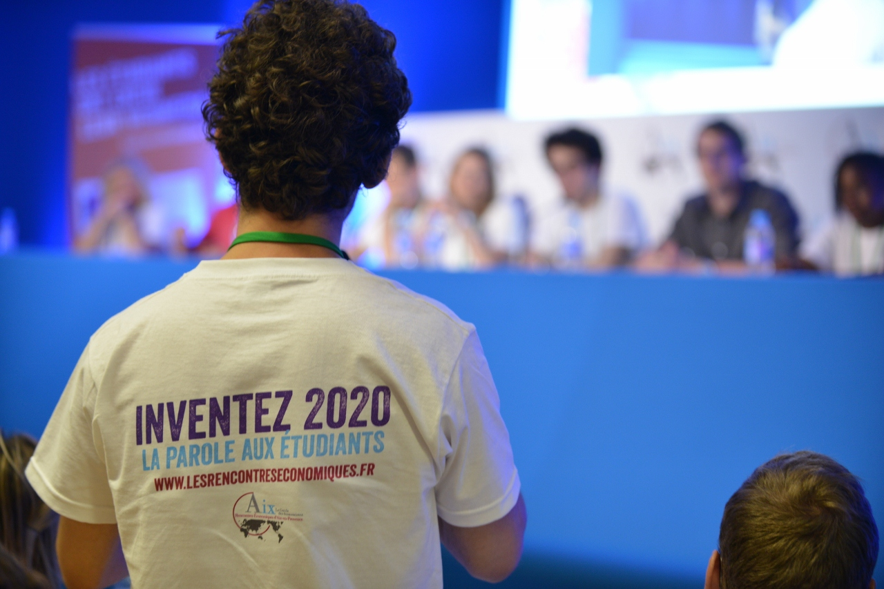 La Parole aux étudiant 2013